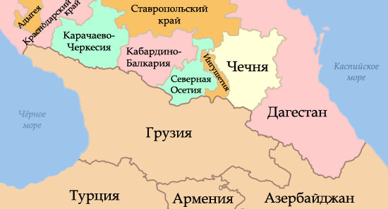 Map showing Chechnya's geographic relationship to the Caucasus region. Created by Kbh3rd on February 4, 2005.